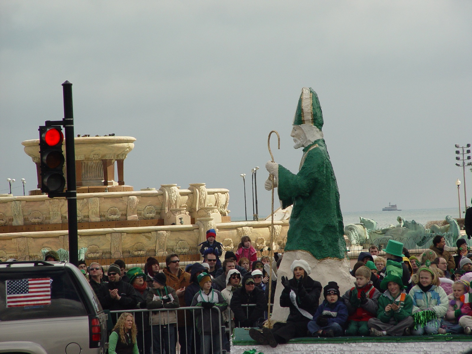 St. Patrick's Day Parade 2007, Chicago.